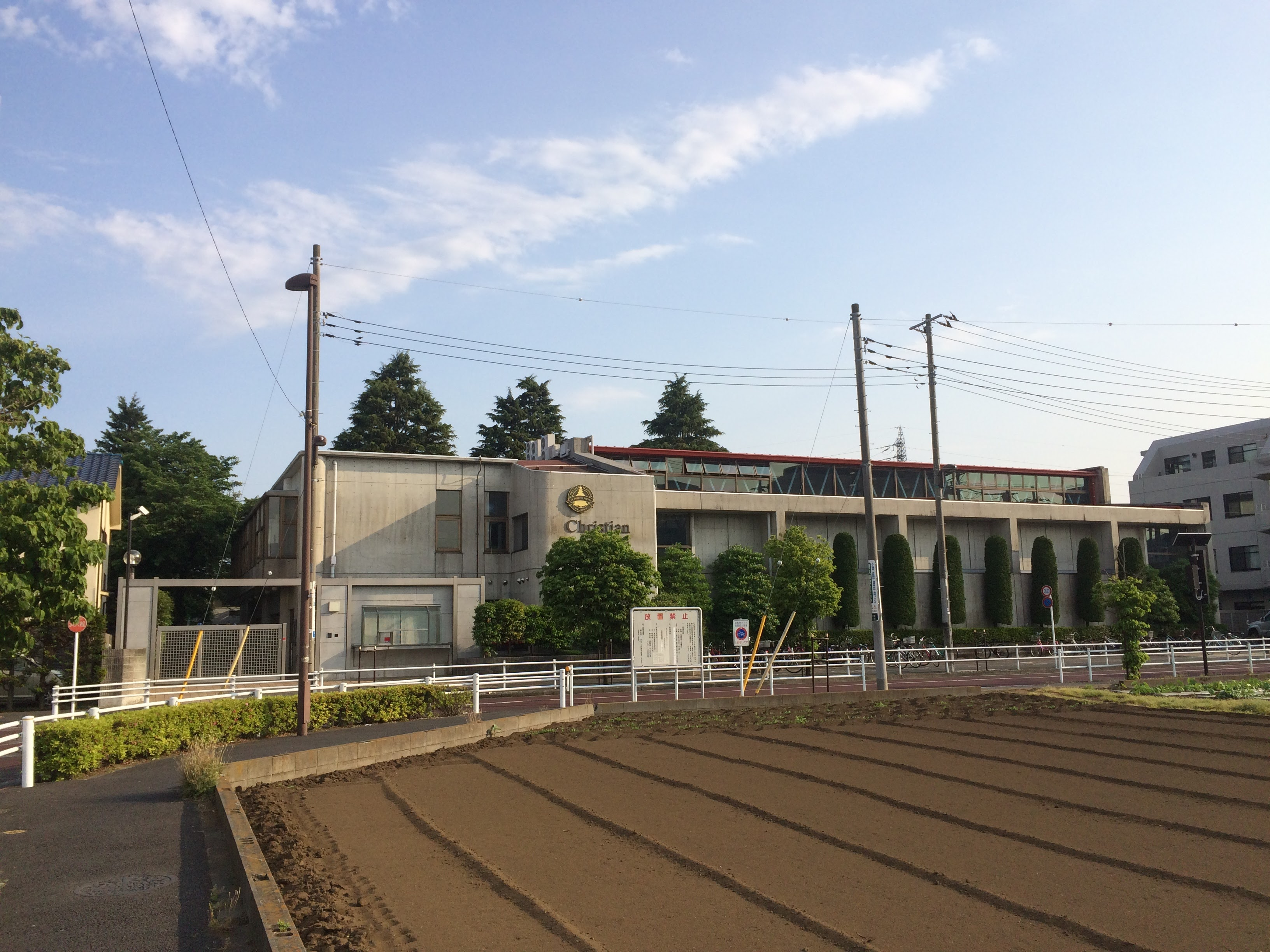 International School in Higashikurume City